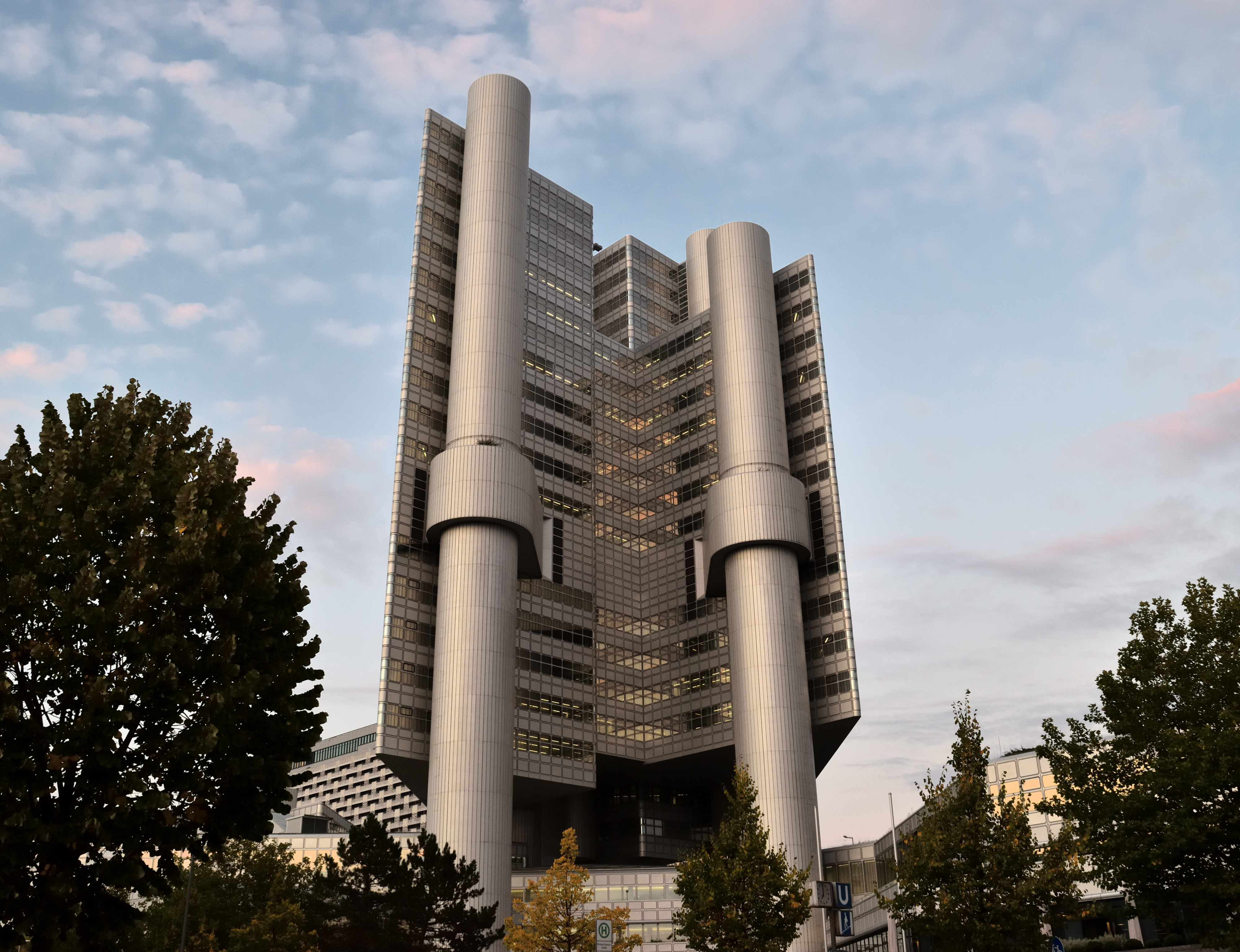 Hypo-Haus - Munich - September 2017